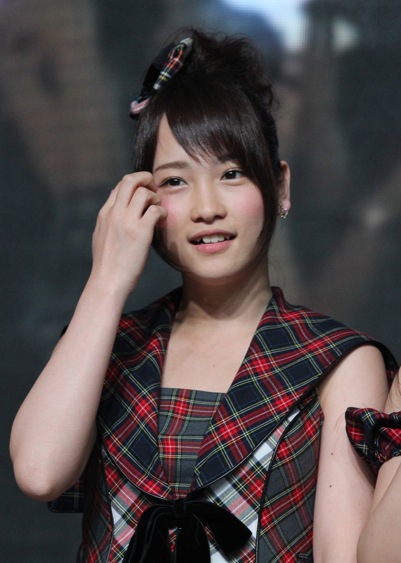 130413 AKB48 at Tokyo Auto Salon Singapore Meet & Greet 2 and Performance